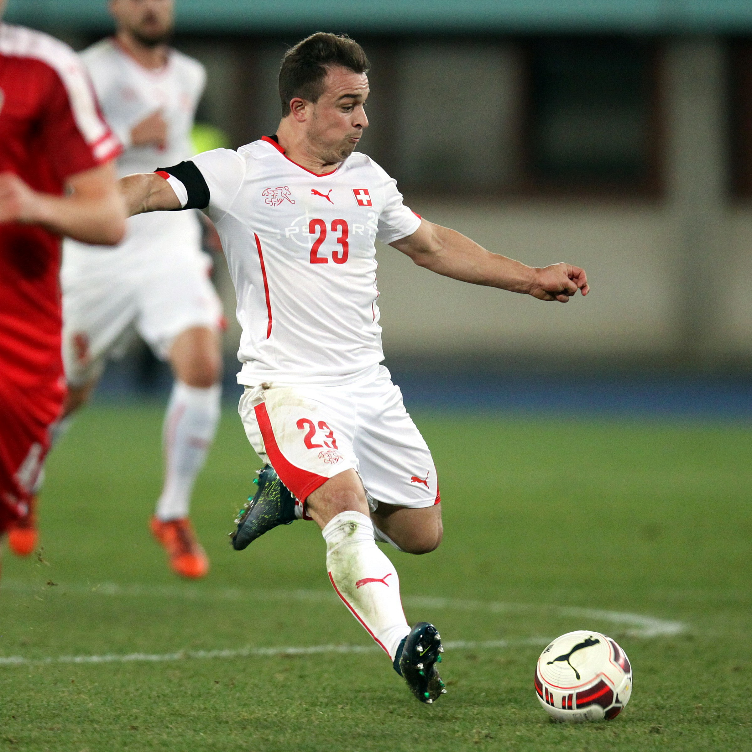 Friendly match – Austria (red shirts) vs. Switzerland (white shirts) 1-2 (1-2) – 2015-11-17 in Vienna, Ernst-Happel-Stadion – The photo shows Xherdan Shaqiri.